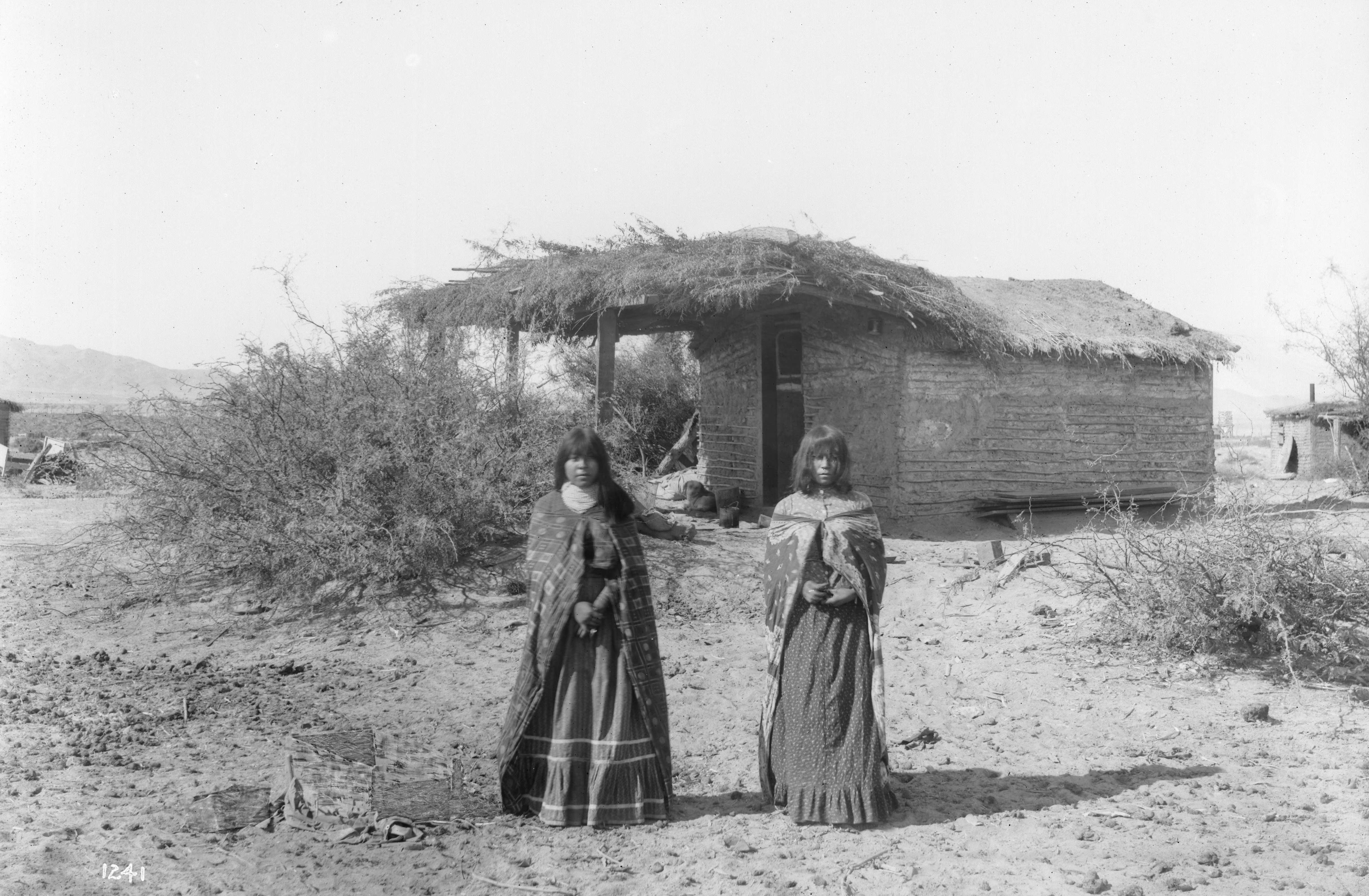 Two Mojave Indians girls standing in front of a small dwelling with a thatched roof, 1900 Photograph of two Mojave Indians girls standing in front of a small dwelling with a thatched roof, 1900. A large bush is in front of the entry to the dwelling. A couple of other dwellings are visible at the sides in the background. The girls are both wearing blankets or large shawls reaching to the ground over their shoulders, and long dresses. Call number: CHS-1241 Photographer: Pierce, C.C. (Charles C.), 1861-1946 Filename: CHS-1241 Coverage date: 1900 Part of collection: California Historical Society Collection, 1860-1960 Format: glass plate negatives Type: images Part of subcollection: Title Insurance and Trust, and C.C. Pierce Photography Collection, 1860-1960 Repository name: USC Libraries Special Collections Accession number: 1241 Microfiche number: 1-173- Archival file: chs_Volume90/CHS-1241.tiff Repository address: Doheny Memorial Library, Los Angeles, CA 90089-0189 Geographic subject (country): USA Format (aacr2): 2 photographs : glass photonegative, photoprint, b&w ; 17 x 22 cm. Rights: Digitally reproduced by the USC Digital Library; From the California Historical Society Collection at the University of Southern California Subject (adlf): tribal areas Project: USC Repository Contributing entity: California Historical Society Date created: 1900 Publisher (of the digital version): University of Southern California. Libraries Format (aat): photographic prints; photographs Geographic subject (state): California Legacy record ID: chs-m14943; USC-1-1-1-13931 Geographic subject: deserts: Mojave Desert Access conditions: Send requests to address or e-mail given. Phone (213) 821-2366; fax (213) 740-2343. Subject (file heading): Indians -- Mojave Subject (lcsh): Indians of North America; Mohave Indians; Clothing and dress; Dwellings